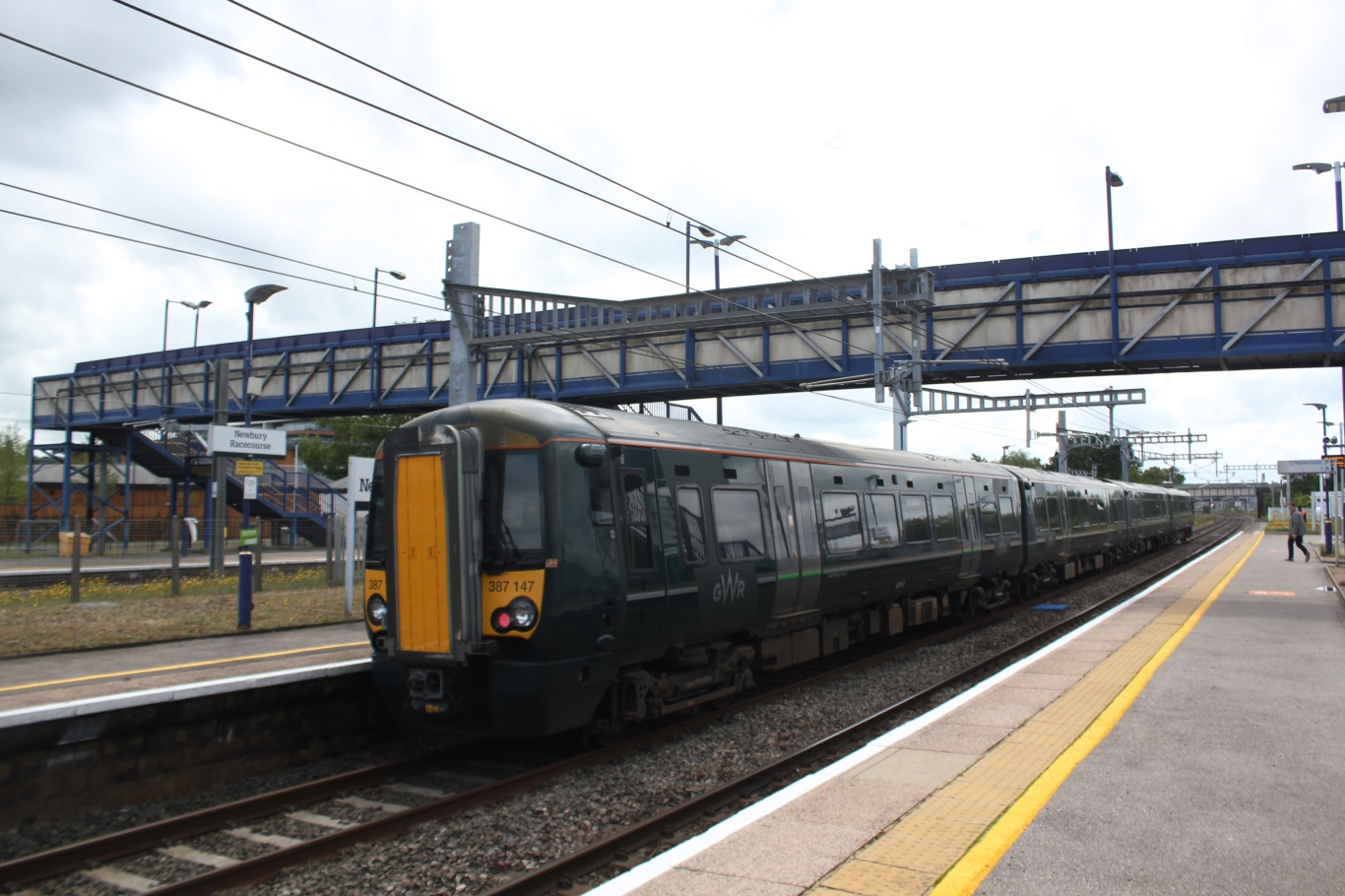 Great Western Railway 'Electrostar' 387147 at Newbury Racecourse while working a service from Reading to Newbury.